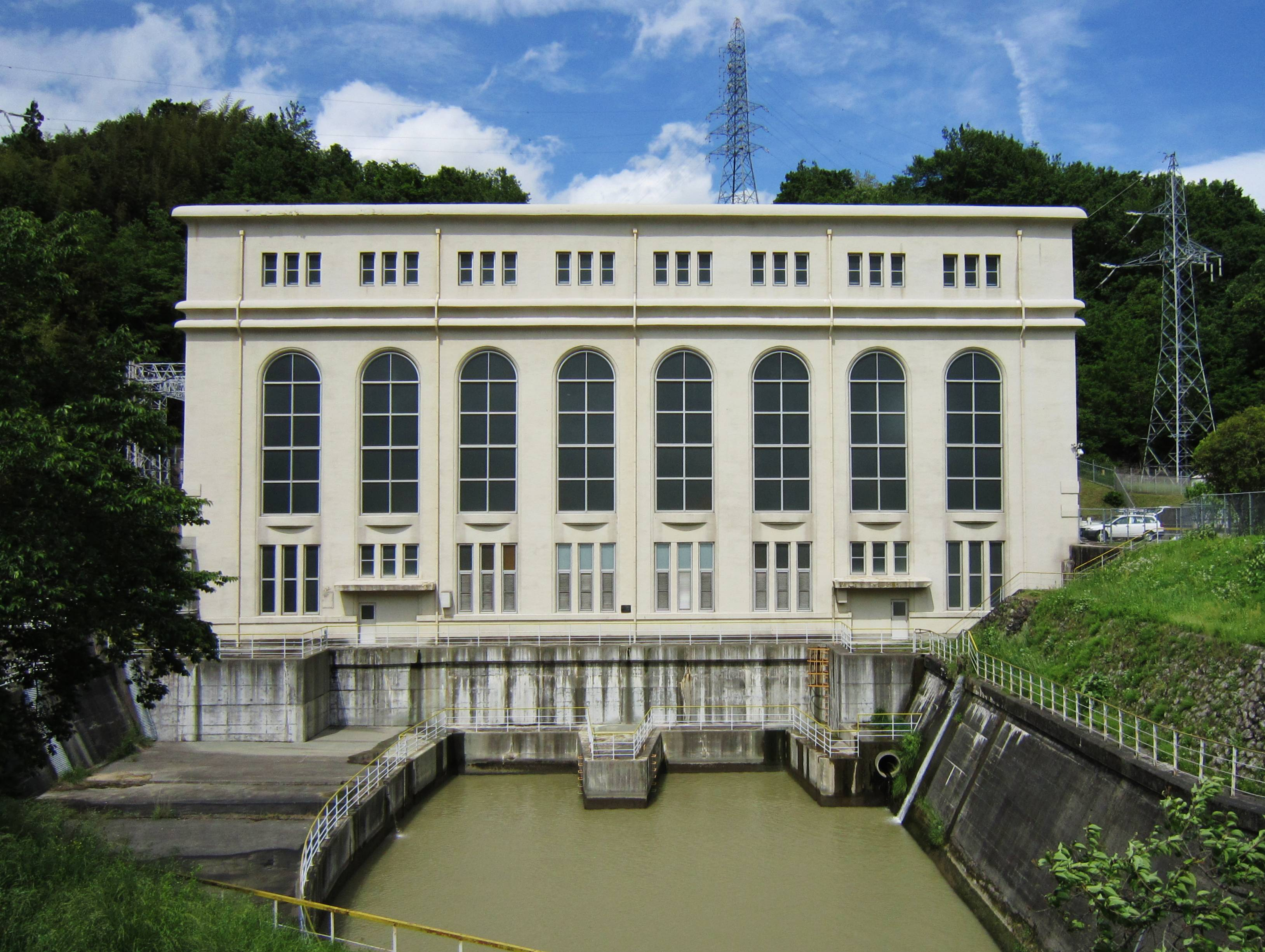 Minakata power station afterbay.